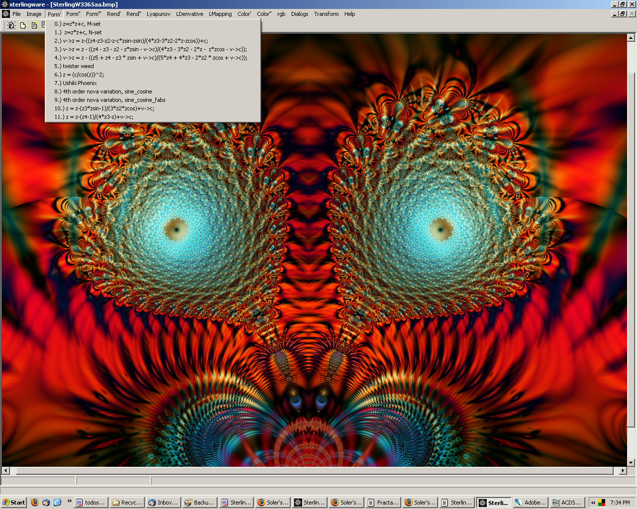 Screenshot of the Sterling2 program